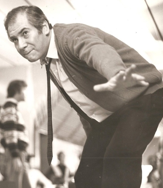 José Slavin- actor argentino